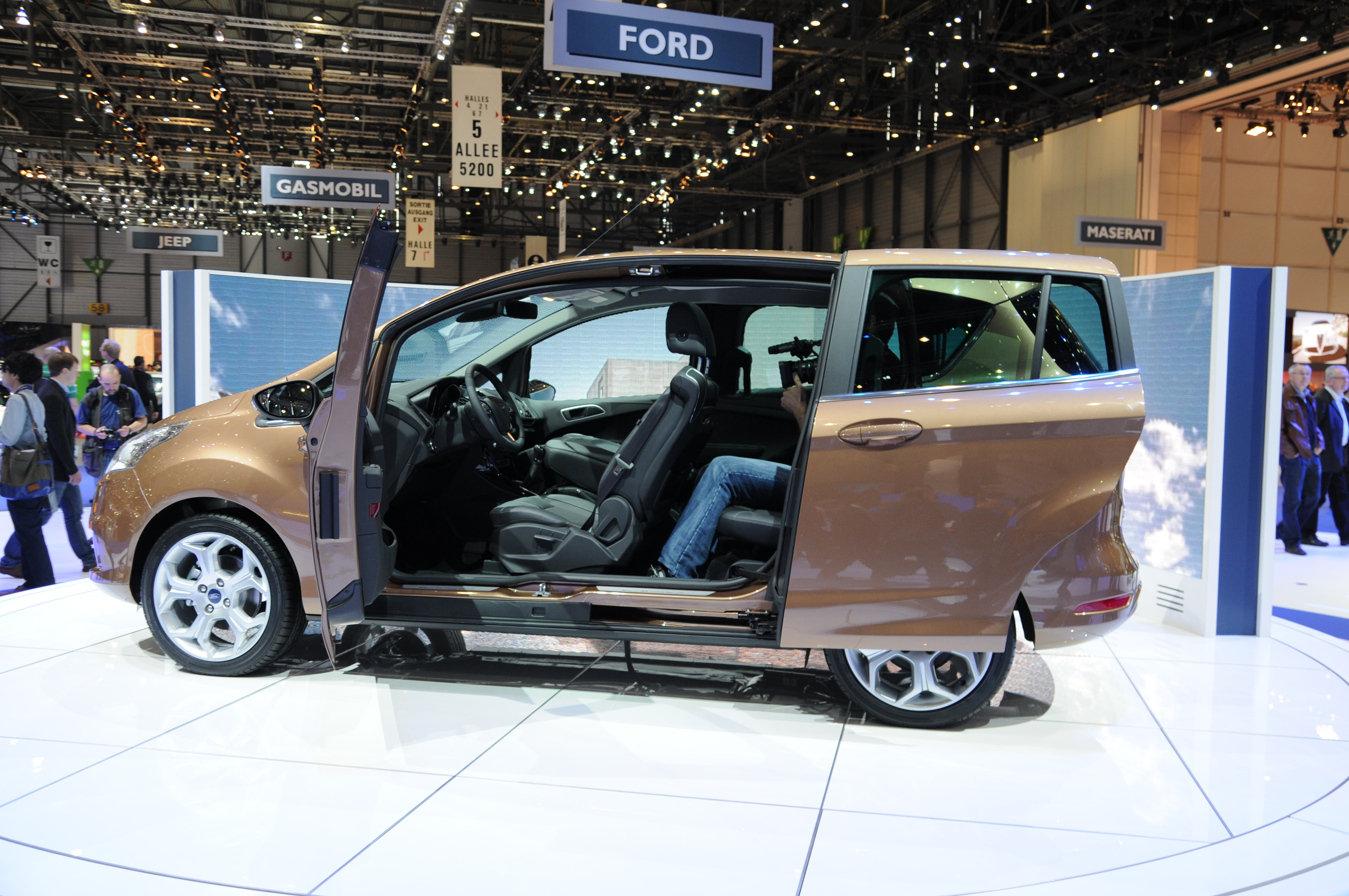 Geneva Motor Show 2012 (photos taken on the second press day)